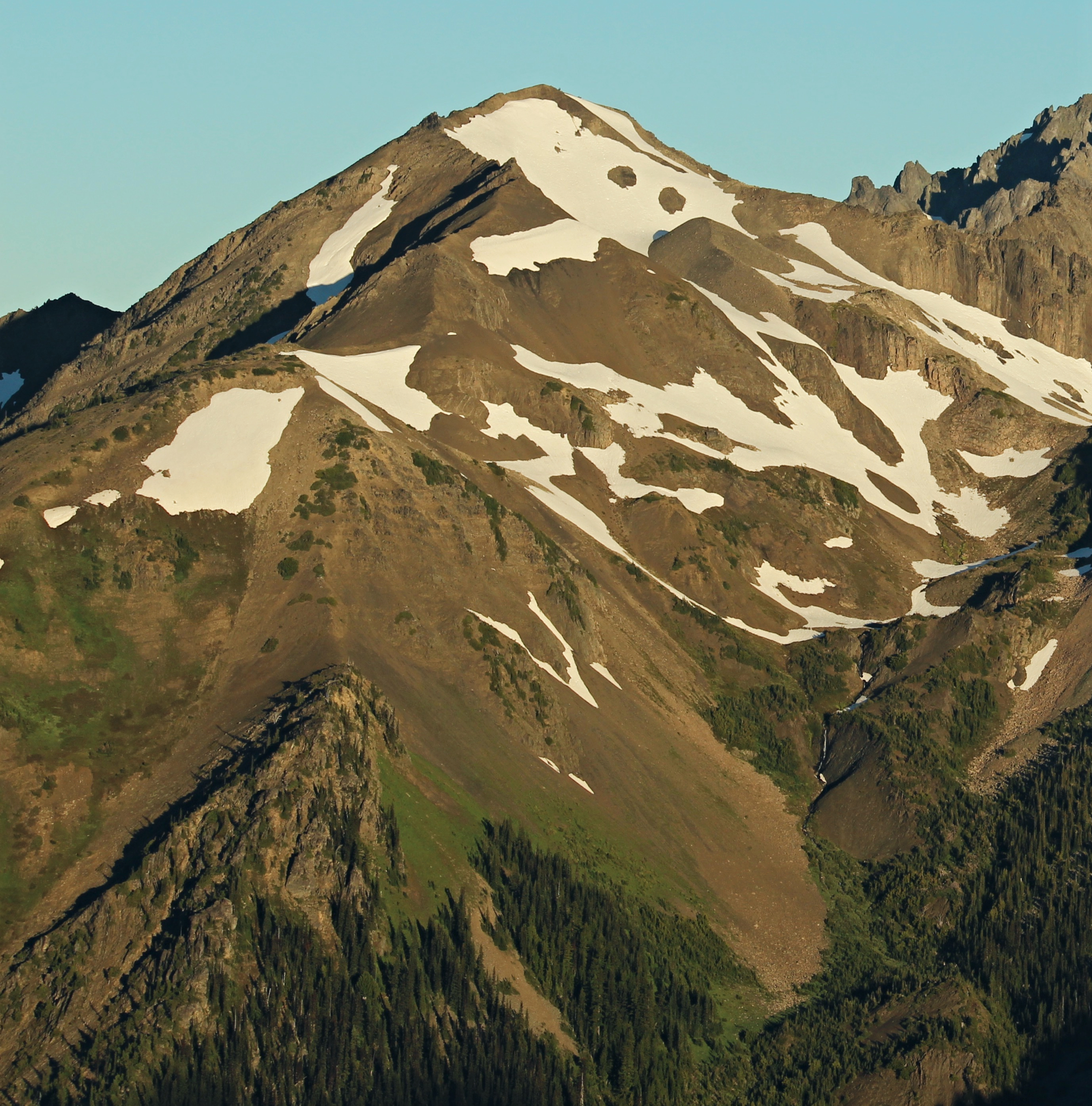 Mount Fricaba in the morning. Looking south from Buckhorn Mountain, Buckhorn Wilderness on the Olympic National Forest